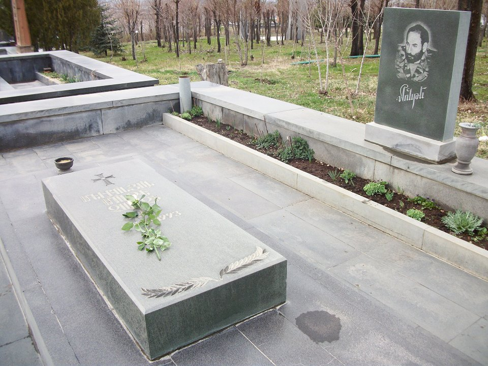 Monte Melkonian gave in Yerablur cemetery in Yerevan, Armenia 7/1.2